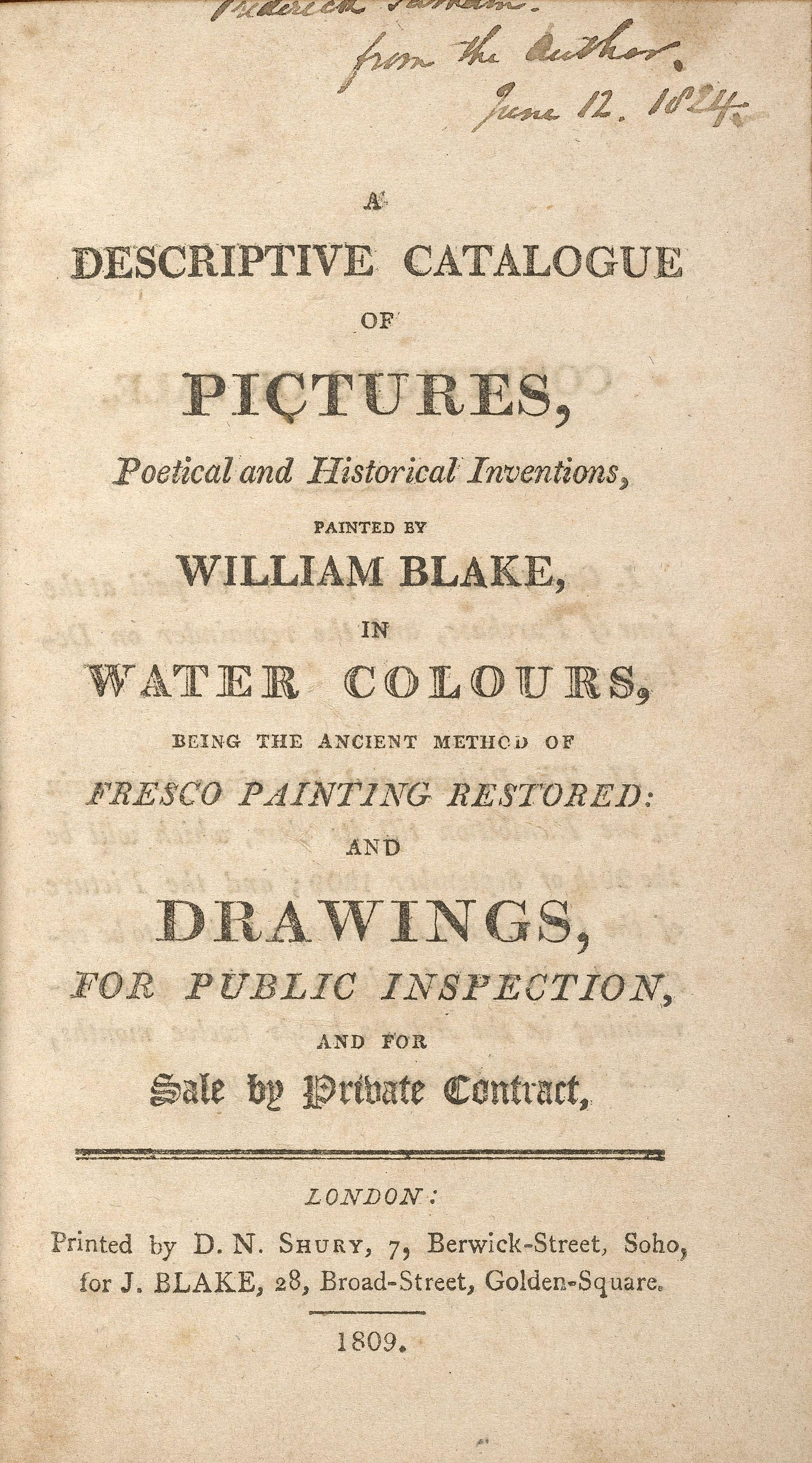 Title page of William Blake's Descriptive Catalogue. Printed by D.N. Shury . . . for J. Blake, 1809. Copy P, in the collection of the Morgan Library, NYC